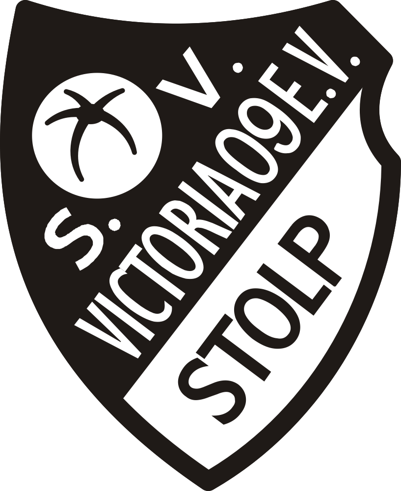 Logo of former german sport club Viktoria Stolp (1909 - 1945)